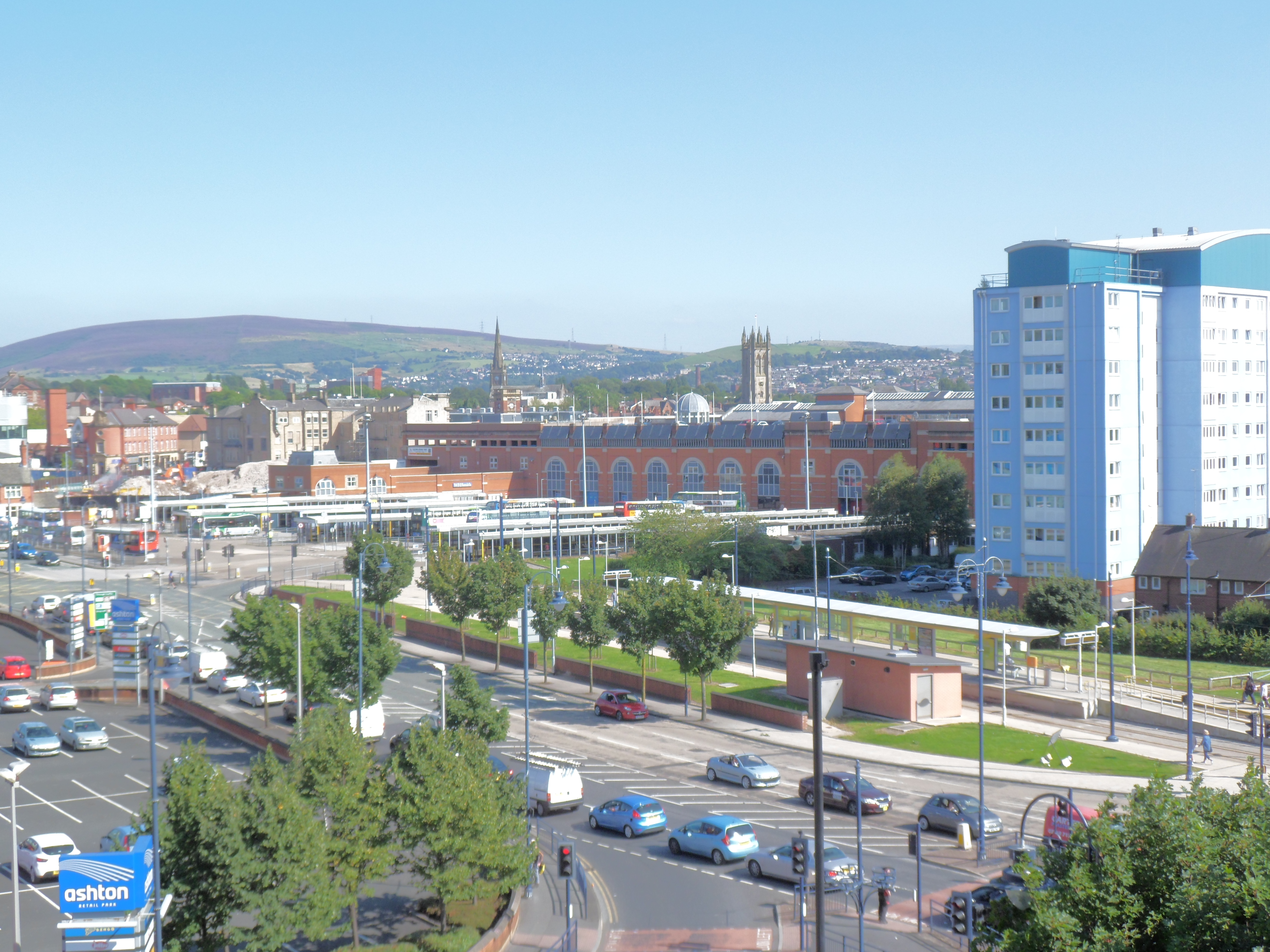 Ashton-under-Lyne in Greater Manchester, England: view after Tameside Council Offices building have been demolished in Summer 2016, Metrolink station and bus station. Picture was taken from IKEA Manchester.